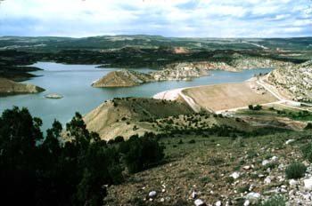 Red Fleet Dam and Reservoir near Vernal, Utah